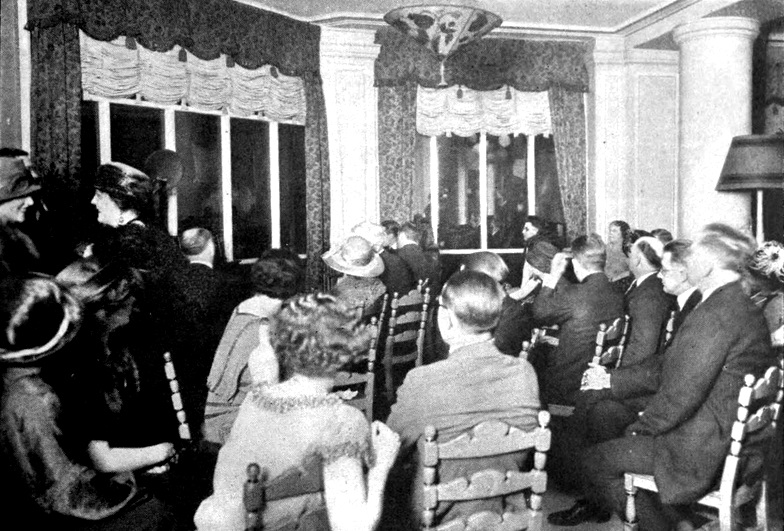 The radio studios for station WJAZ, Chicago, Illinois, located at the Edgewater Beach Hotel, were glass-enclosed, so that audiences could watch live performances. Original caption: "LISTENING TO WJAZ FROM JUST OUTSIDE THE STUDIO: Guests at the Edgewater Beach Hotel, Chicago, can see the broadcasters through the windows at the left and the control room operators through the windows at the centre. At the same time, they can listen to the program by means of a receiver and loud speaker."